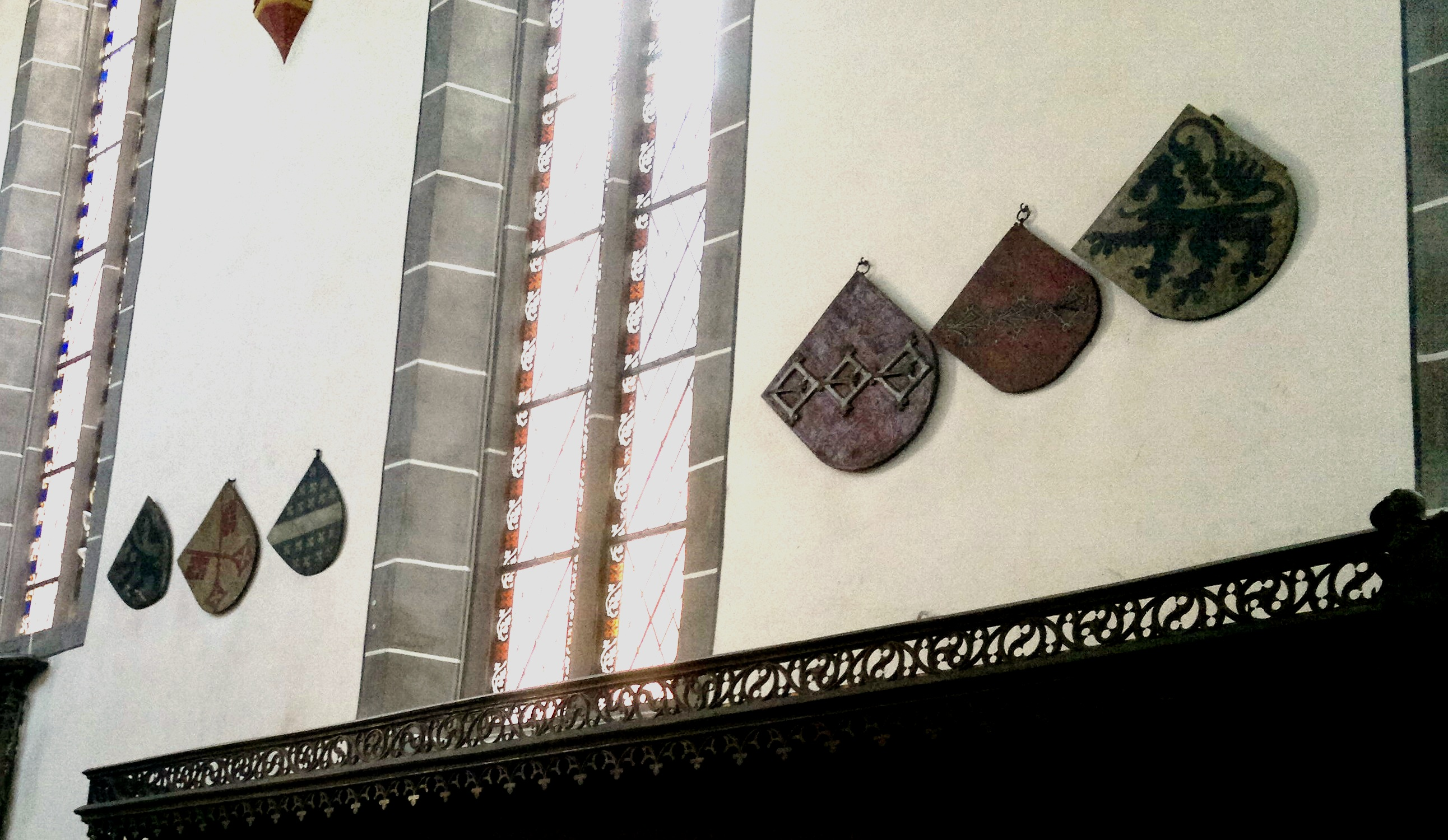 Six of the remaining hatchments in the Carmelite Church in Boppard